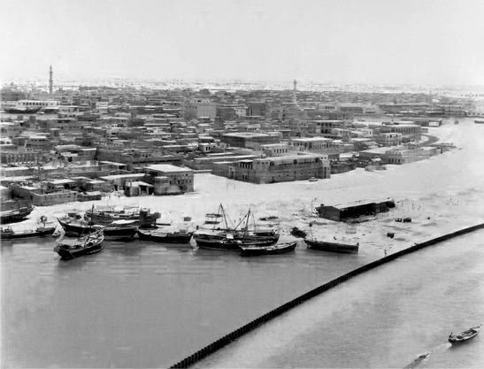 This image shows the Al Ras historic district of the Deira region of Dubai, United Arab Emirates.